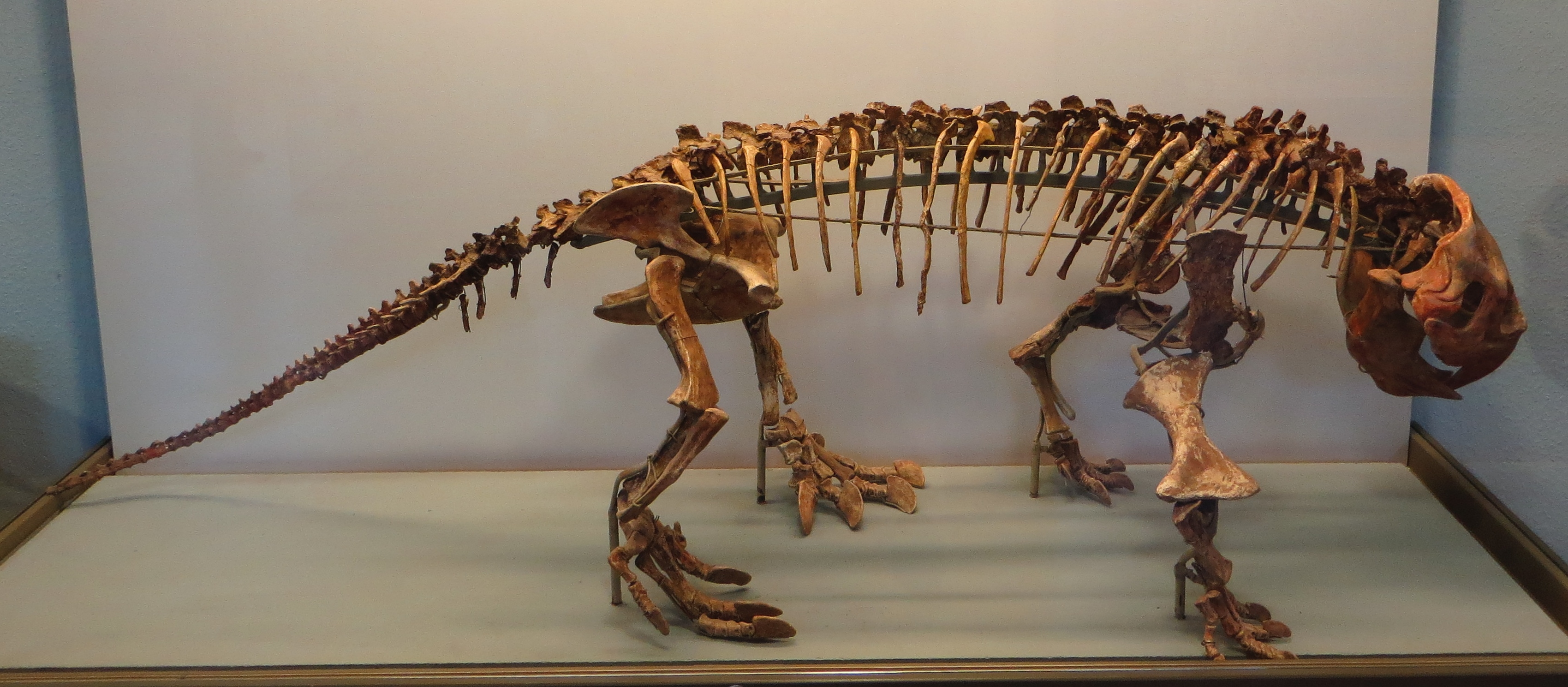 Fossil of Hyperodapedon, an extinct reptile- Took the picture at Museum of Paleontology, Tuebingen